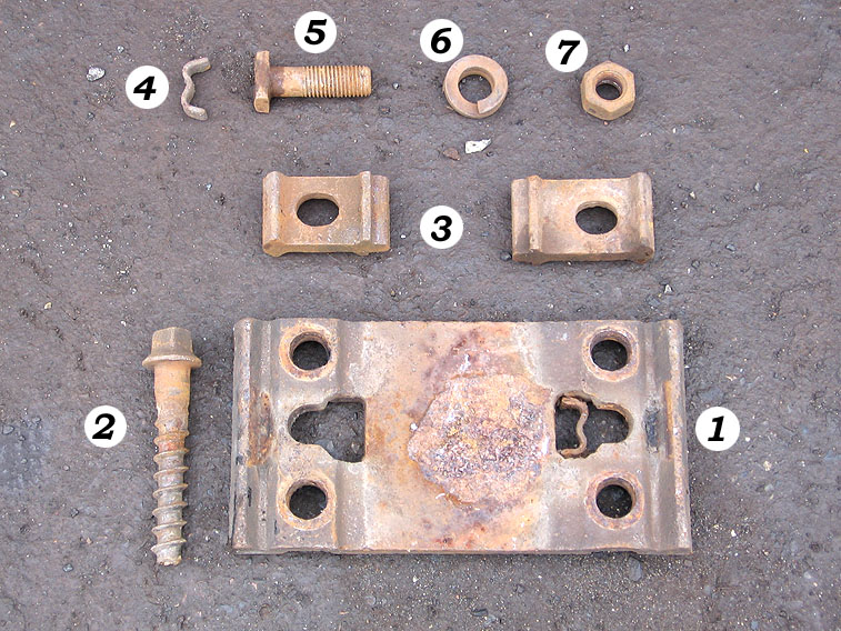 rail fastening